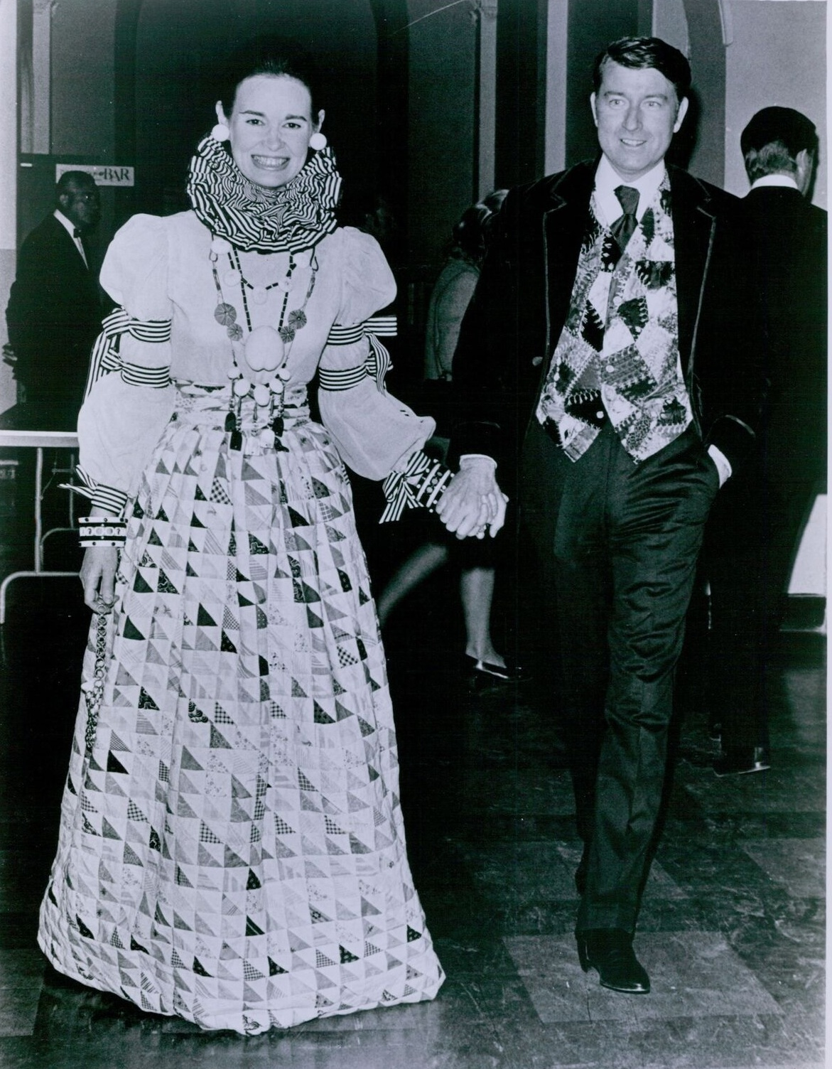 Gloria Vanderbilt Cooper and her husband, Wyat Emory Cooper, in 1970. Gloria is wearing an outfit made from an antique patchwork quilt by the designer Adolfo in 1967 (now in the V&A Museum) and her husband is wearing a waistcoat also made from an antique quilt.